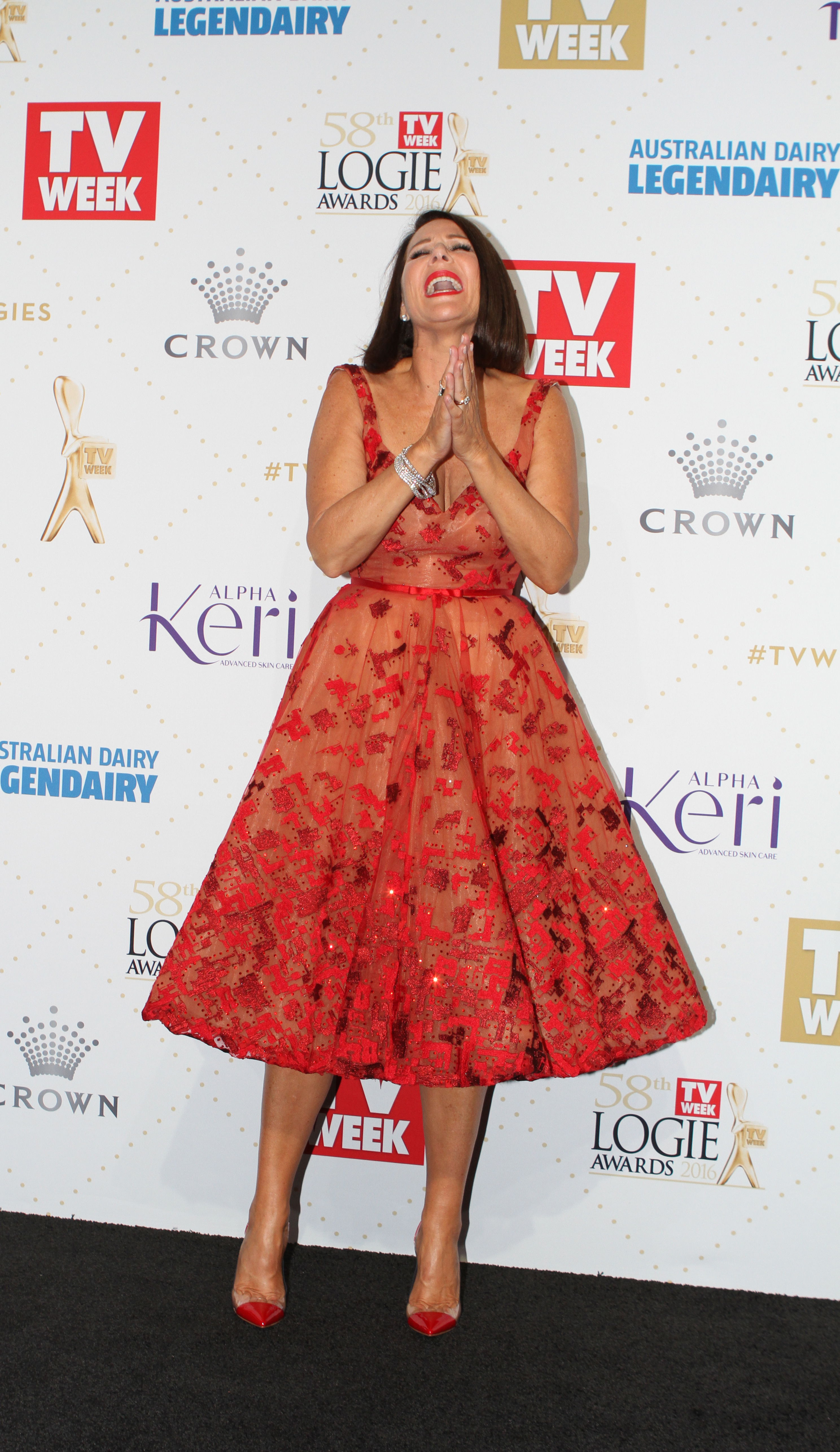 Julia Morris arrives at the TV Week Logie Awards 58th Annual Crown Palladium